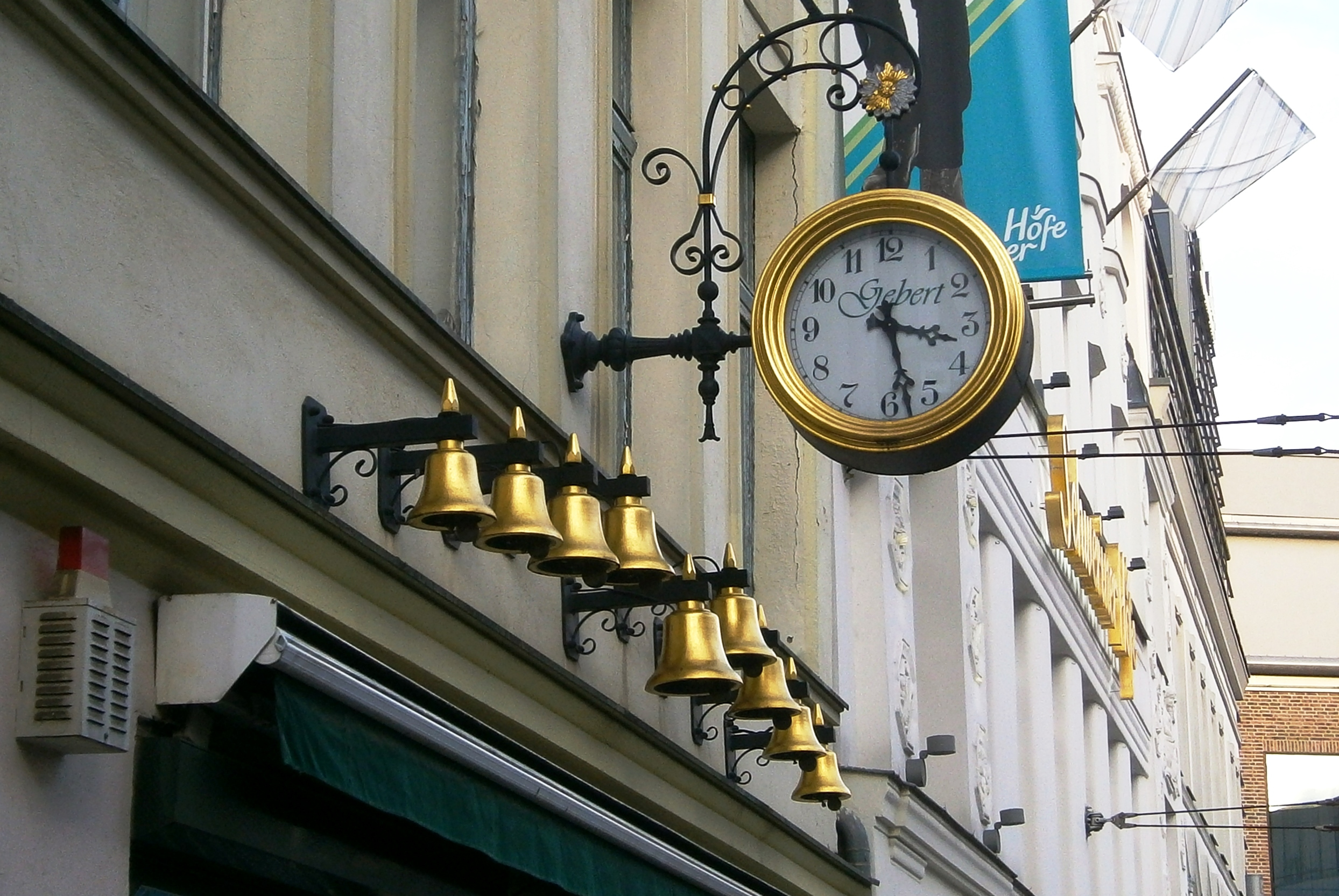 Carillon on the watch and jewellery shop Gebert & Gebert in building Lübecker Strasse 3 in Schwerin in Mecklenburg-Vorpommern. Eight bells daily ring on 12 and 15 with different melodies.